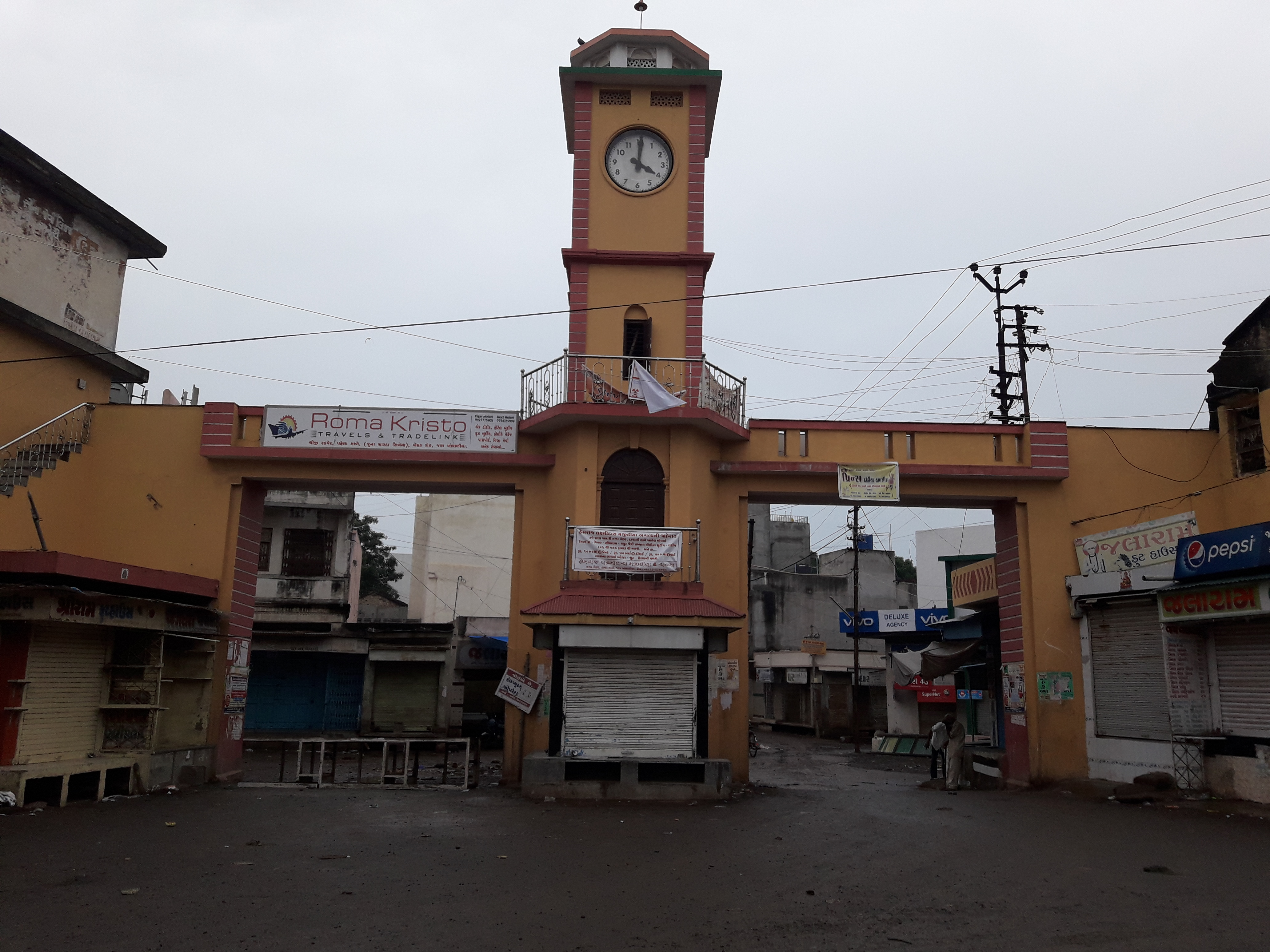 Clock Tower, known as Nagar Naku, in Jamkhambhaliya, Gujarat, India.